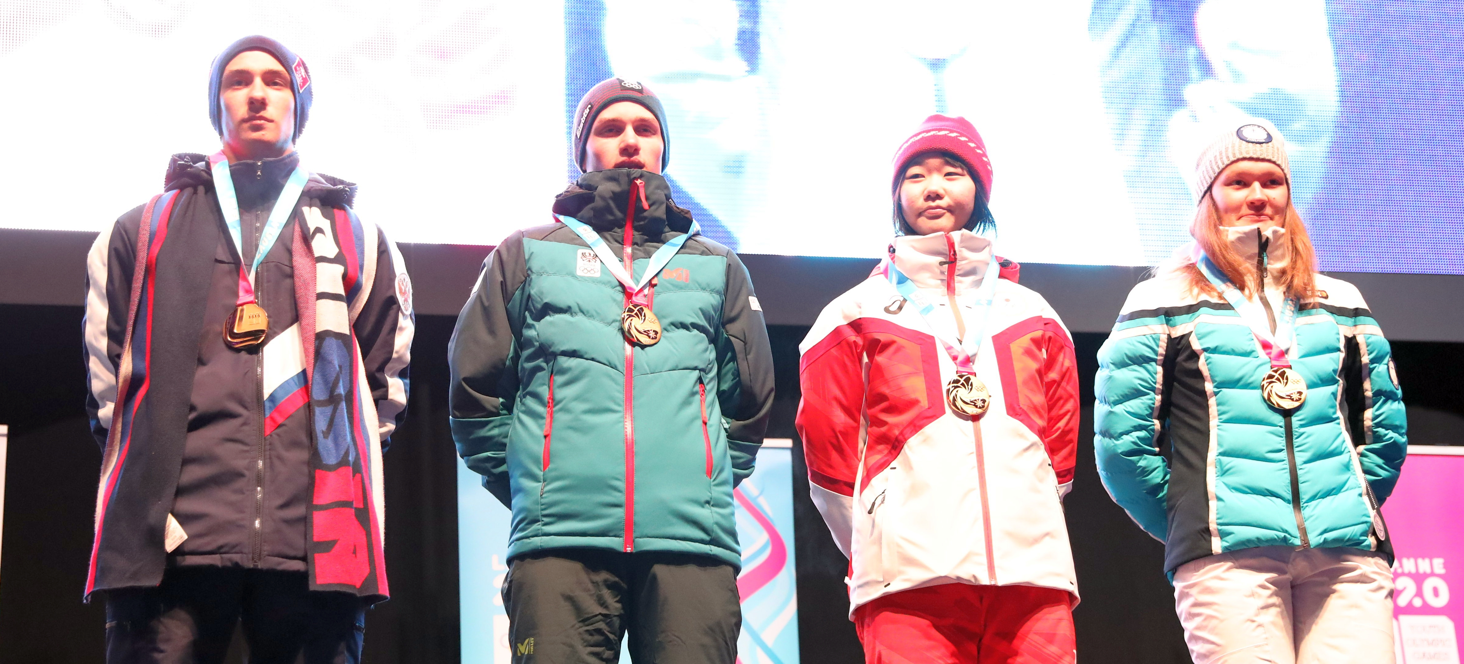 Medal Ceremony Day 7 in St. Moritz, 2020 Winter Youth Olympics in Lausanne